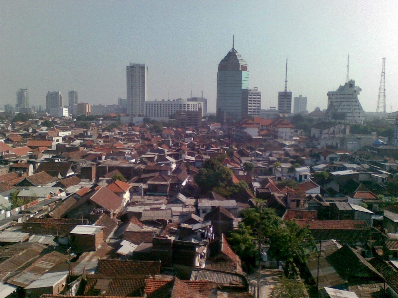 A view of office buildings and dwellings in Surabaya